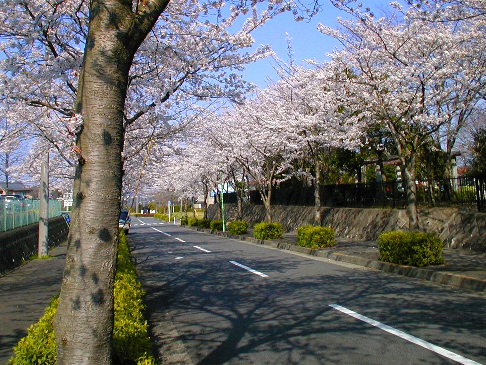 a street lined with blossoming cherry trees, Yakushidai, Tokyo, Japan